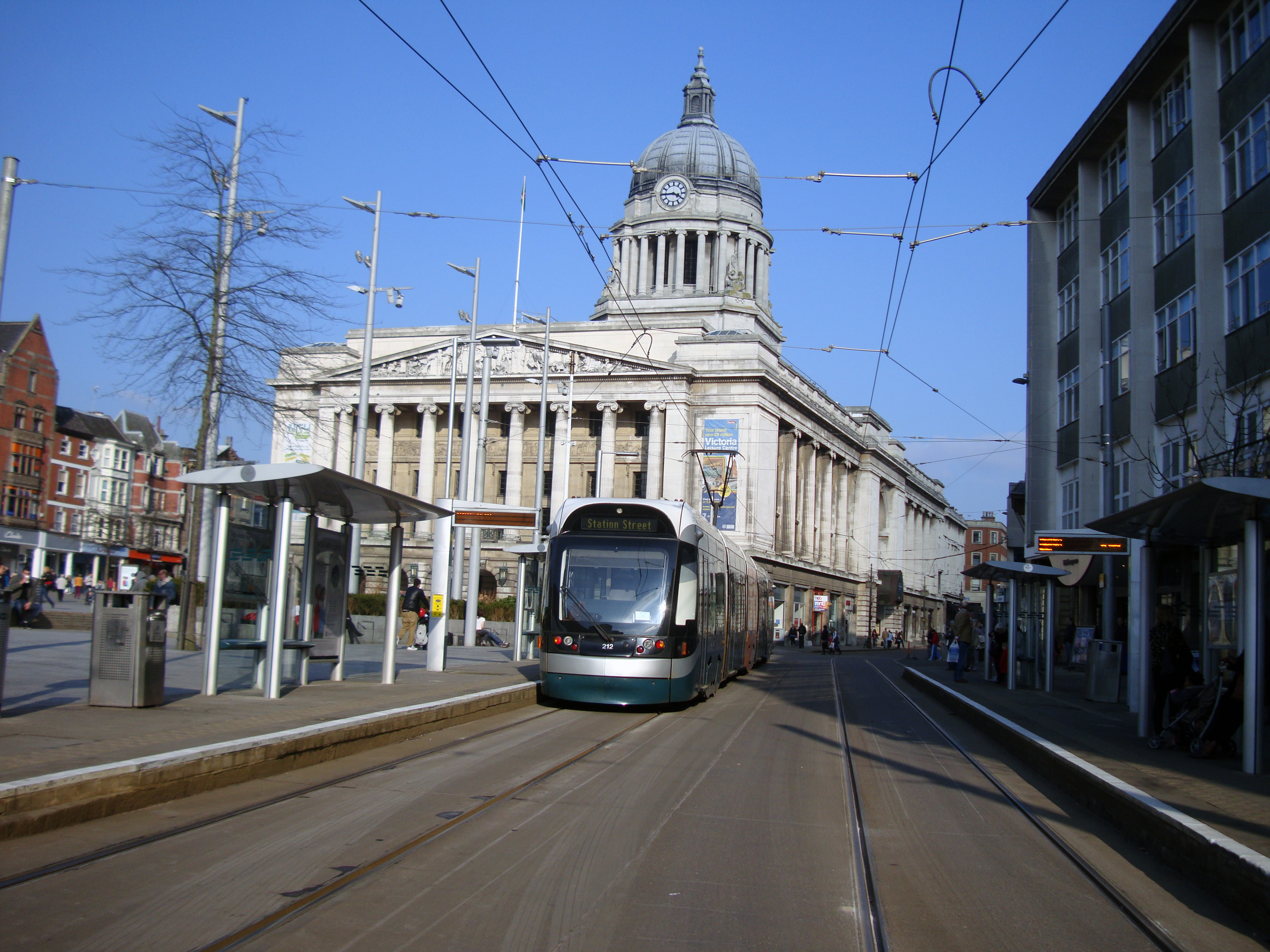 Nottingham Express Transit 212, Old Market Square March 2012